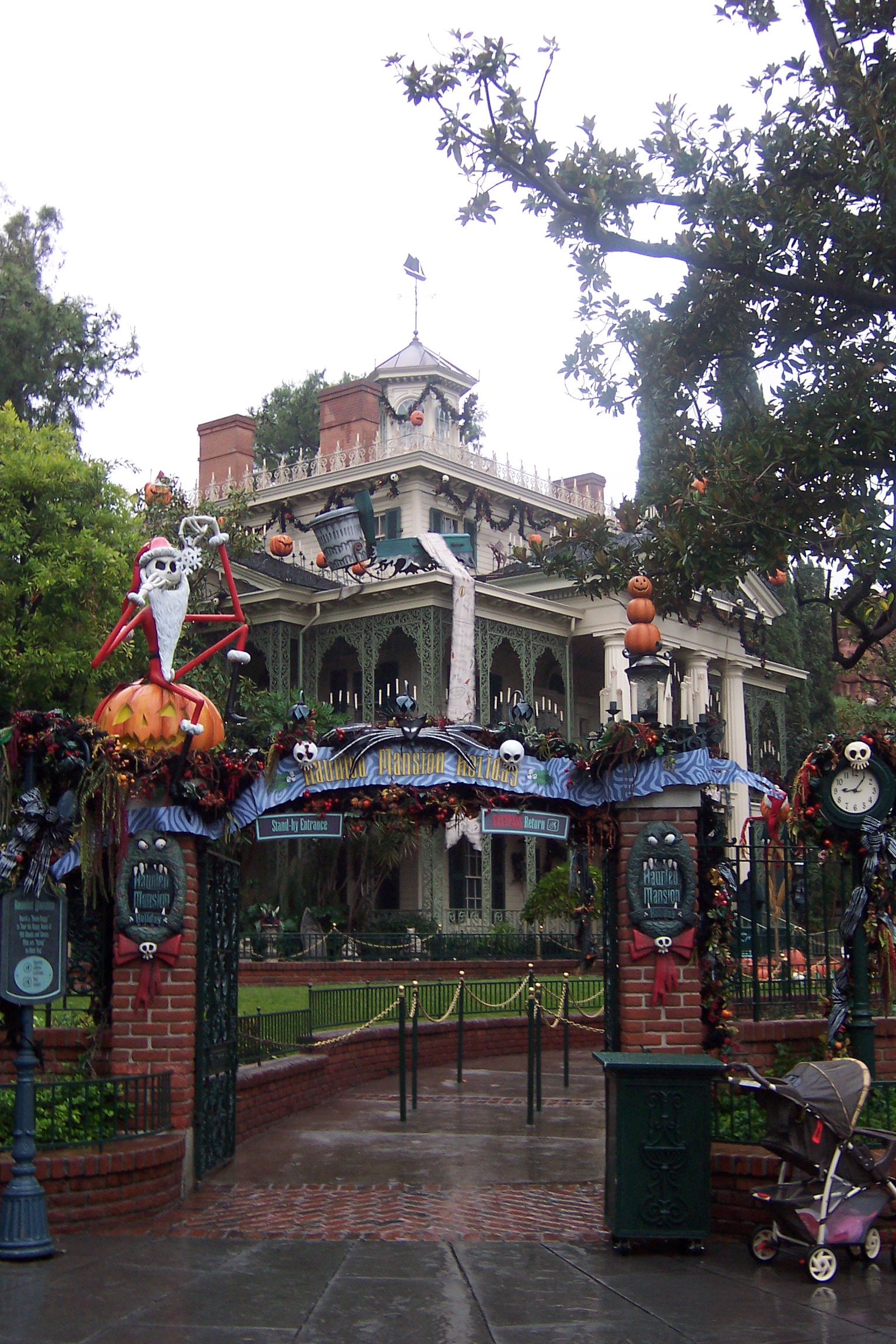 Haunted Mansion at Disneyland Anaheim (Holiday version)